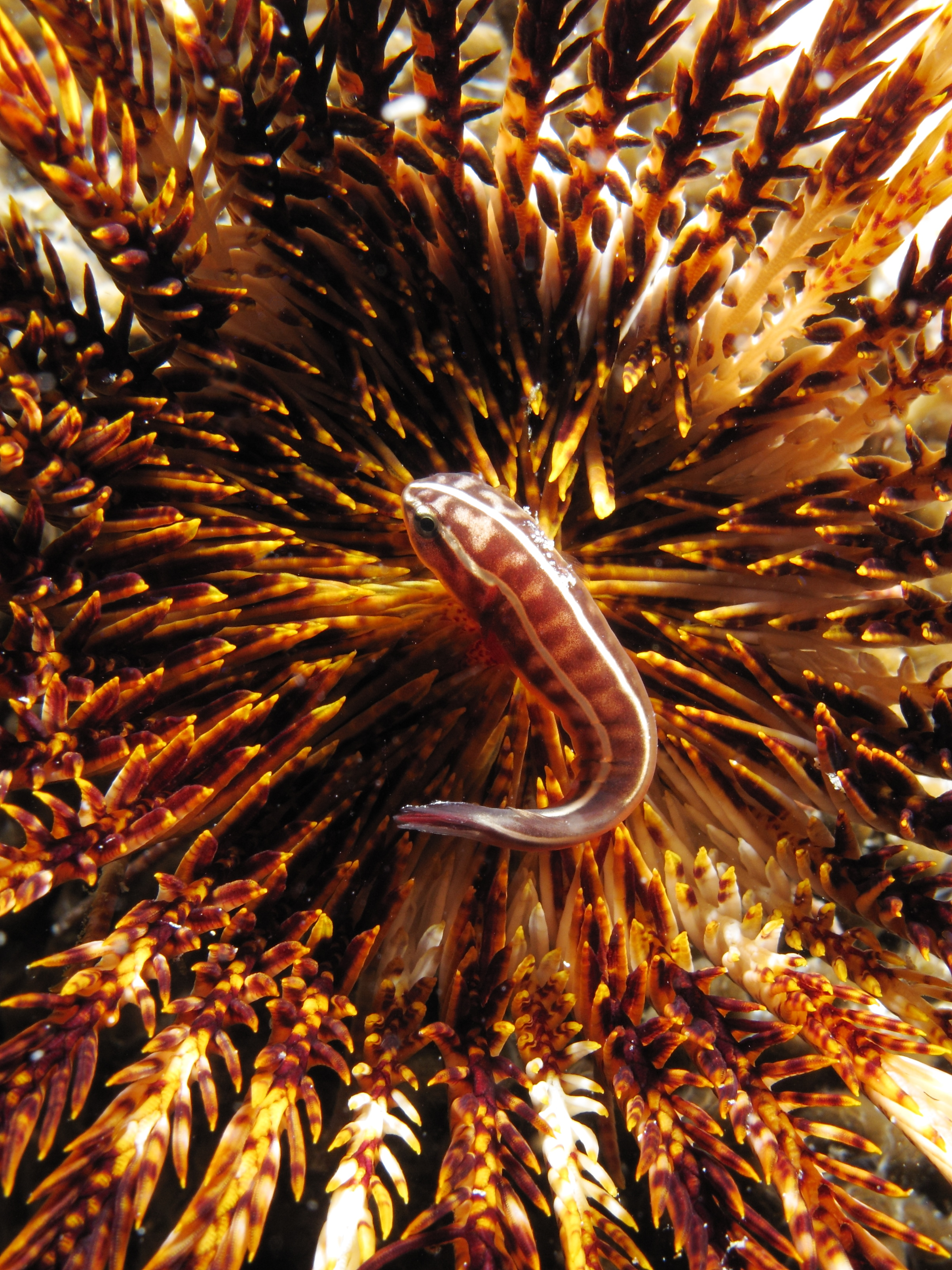 Feather star clingfish (Lepadichthys lineatus) on the host crinoid at Semberapu Island (near Komodo, Indonesia)